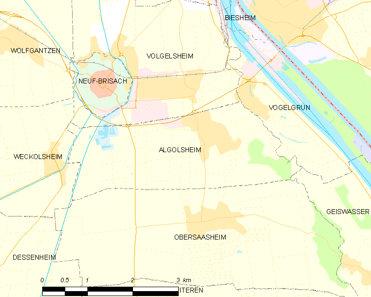 Map of French municipality